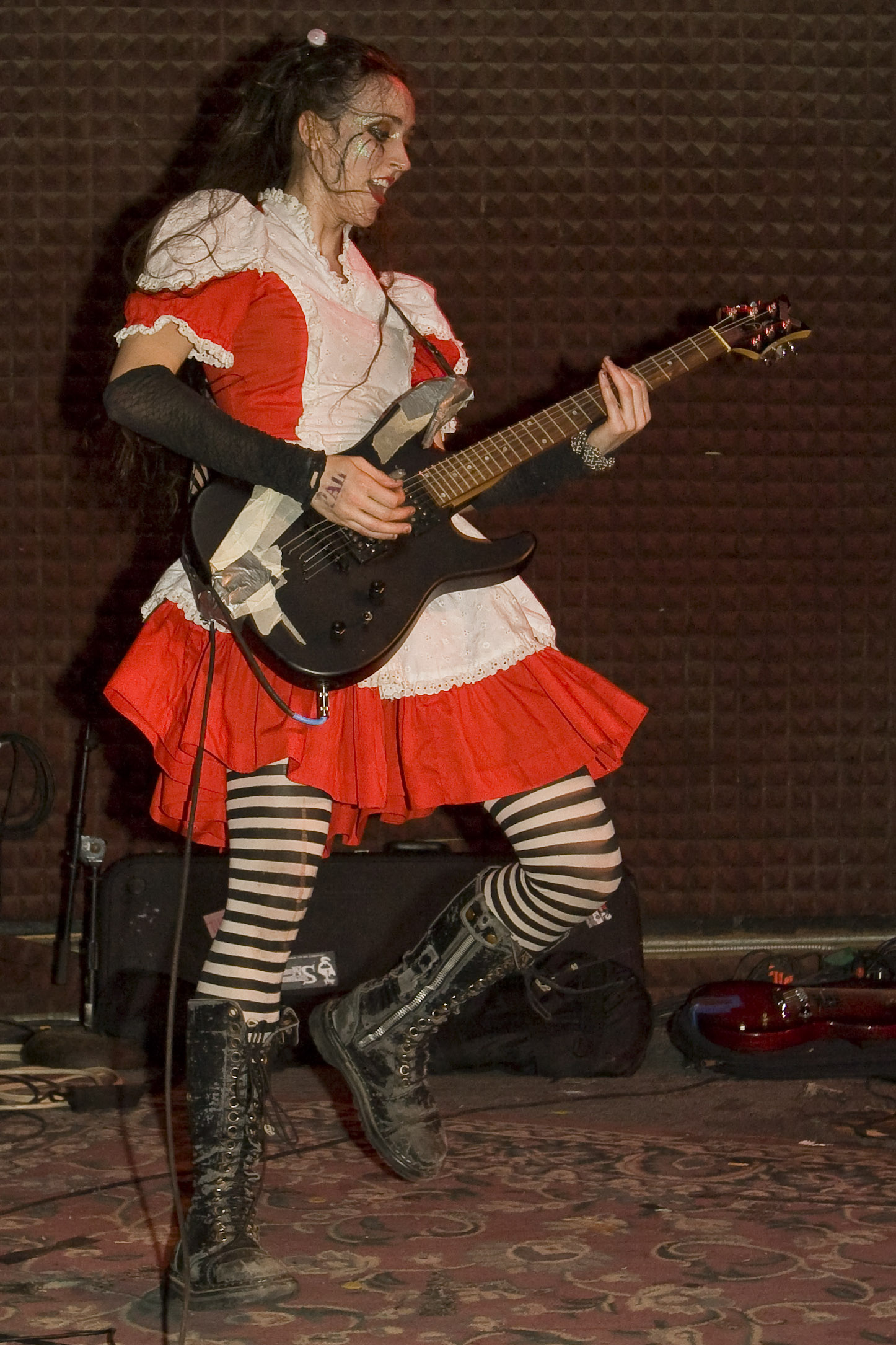 Photo of Kimberly Freeman of One-Eyed Doll at Red-Eyed Fly